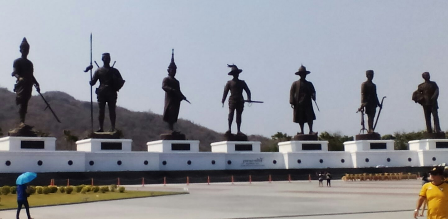 Statues of the seven great Thal kings